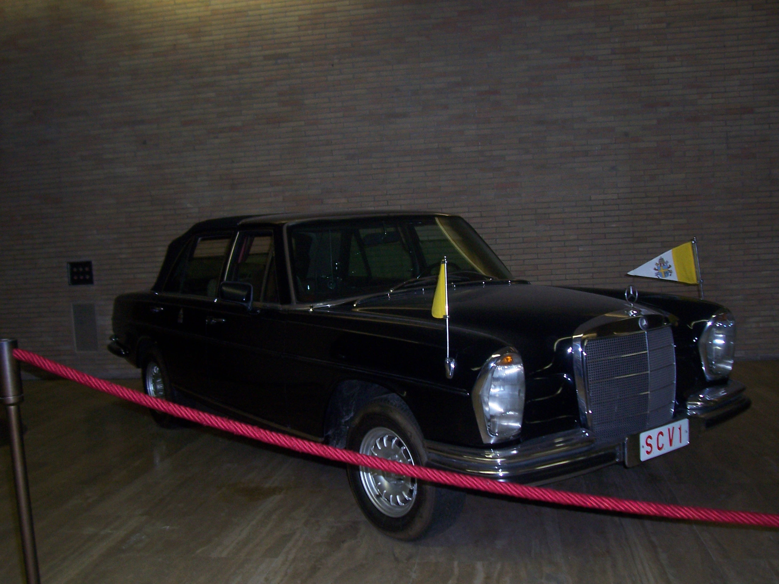 The Mercedes-Benz W109 used by the popes Paul VI, John Paul I and John Paul II.